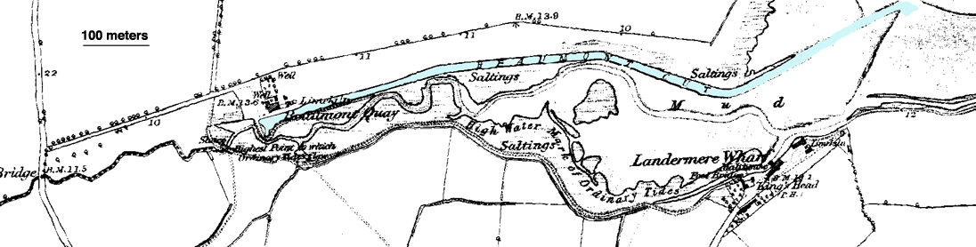 Based on detail from 1880 Ordnance Survey of Essex at 1:10560. Colour addition by uploader.